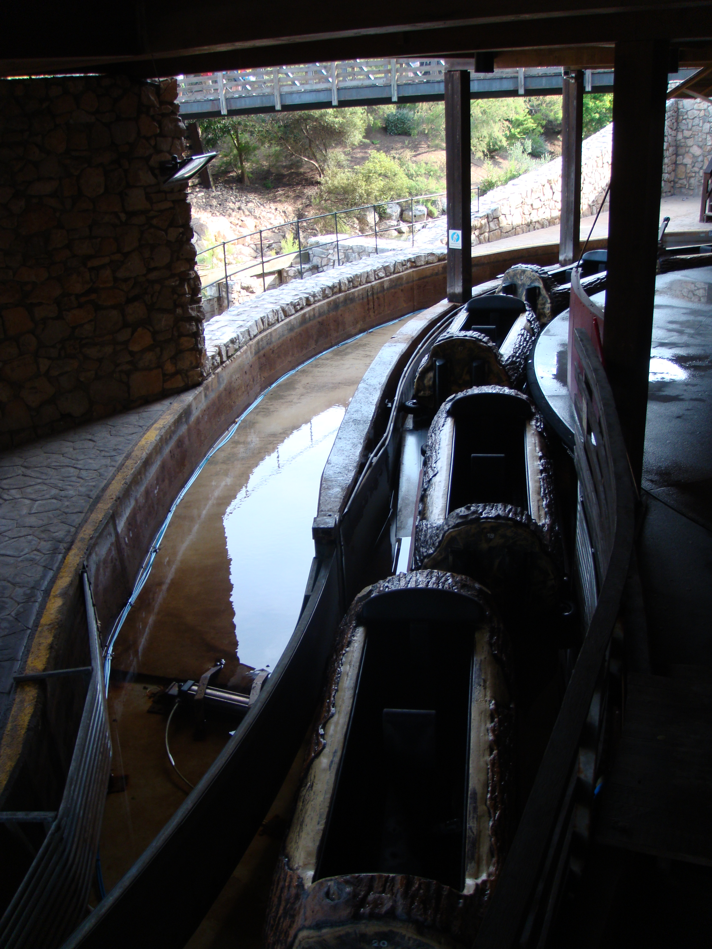 Silver River Flume boats.